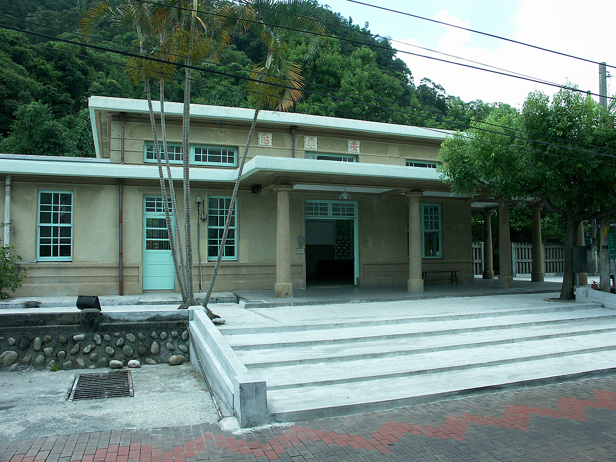 Old Taian Station in Taichung Line.